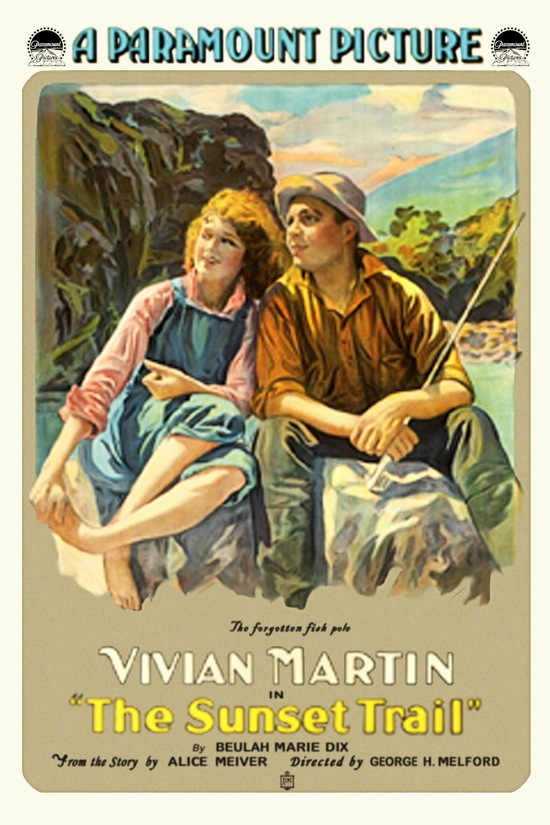 This is a poster for the American western film The Sunset Trail (1917). The poster art copyright is believed to belong to the distributor of the film, Paramount Pictures, the publisher of the film or the graphic artist.